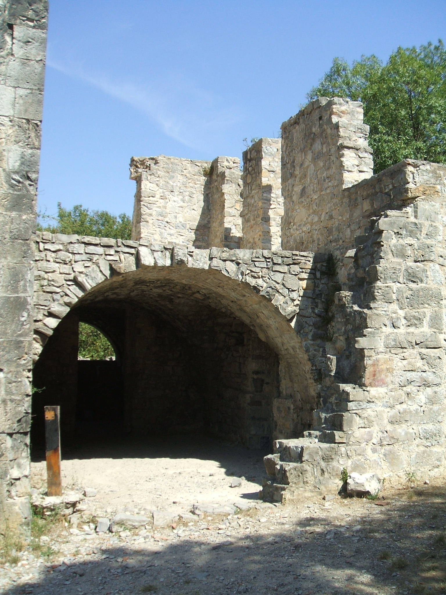 Chapelle Saint-Etienne d'Issensac (commune de Brissac, Hérault, Languedoc-Roussillon, France) : ancien cellier (?) accolé au sud de l'église.